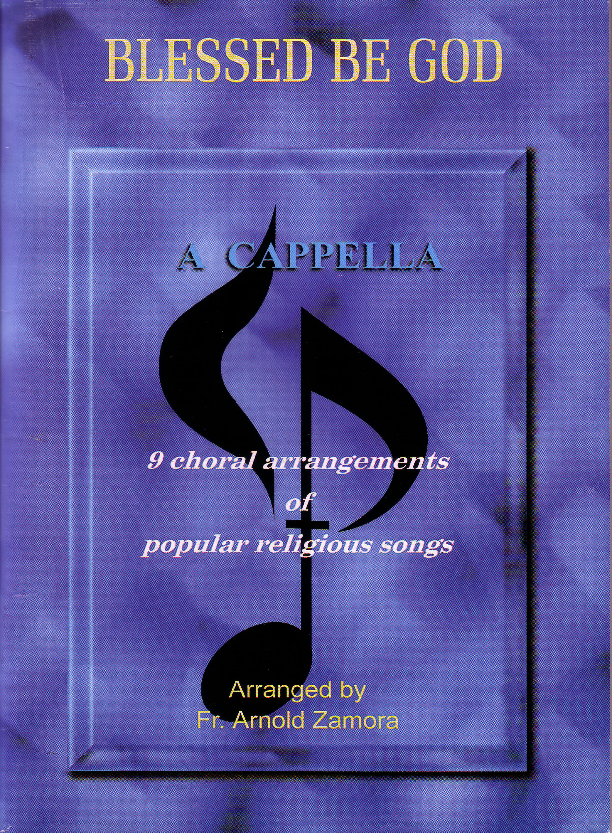 Book Cover of Blessed be God Songs Author:Arnold Zamora Source:Arnold Zamora himself via